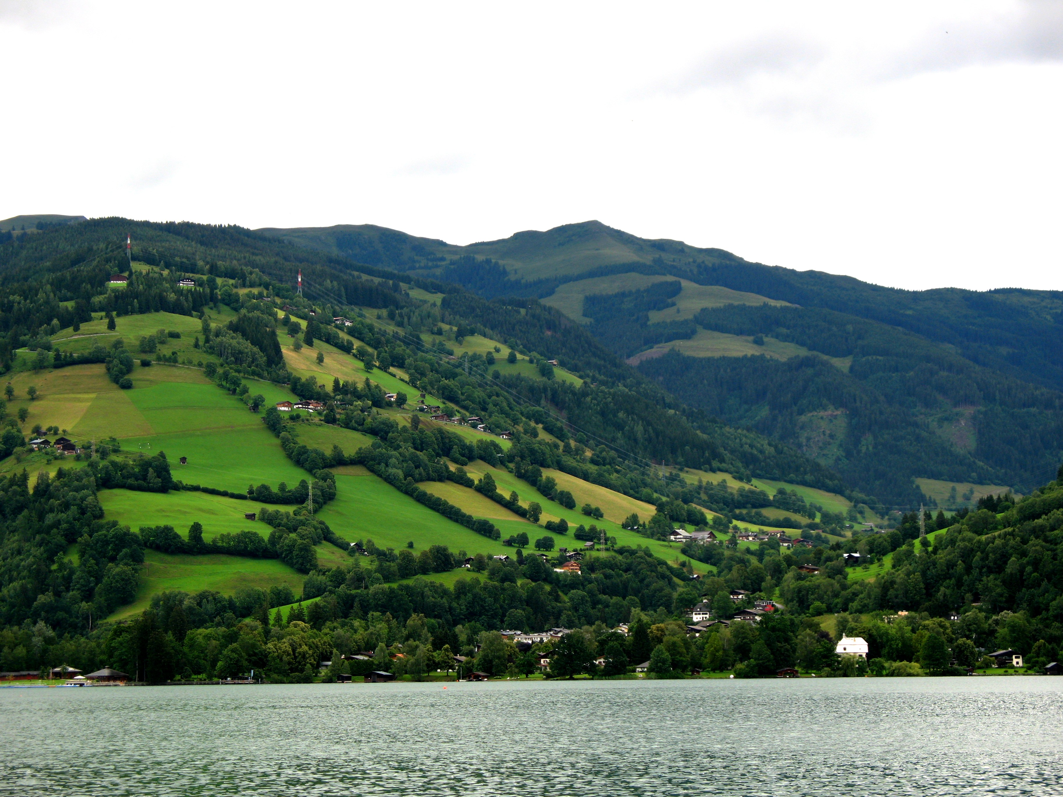 Zeller See, Austria